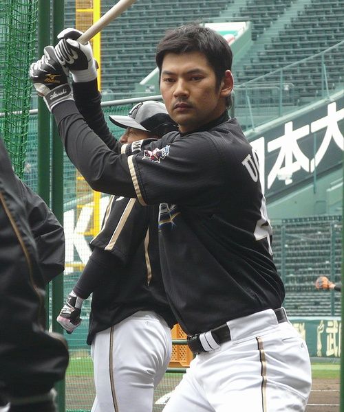 NF-Atsushi-Ugumori20120310